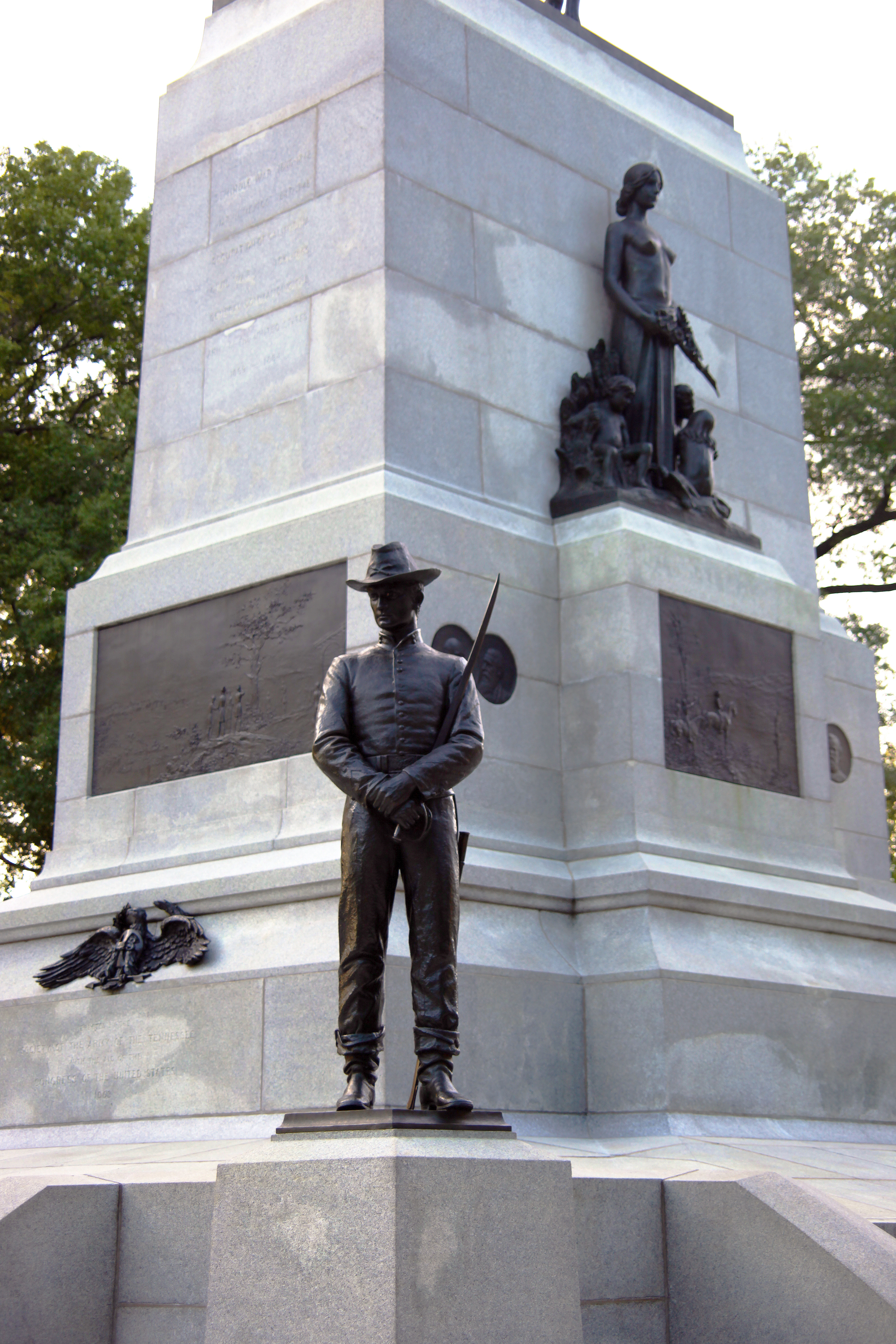 The bronze statue titled "Artilleryman", depicting an artilleryman of the Army of the Tennessee, on the northeast corner of the General William Tecumseh Sherman Monument in Sherman Plaza in Washington, D.C., in the United States. The monument and sculpture were designed by Danish-American sculptor Carl Rohl-Smith between 1896 and 1900, but he died in 1900. Sources differ as to whether Rohl-Smith or sculptor Sigvald Asbjornsen completed work on the "Engineer". The memorial was dedicated in 1903.